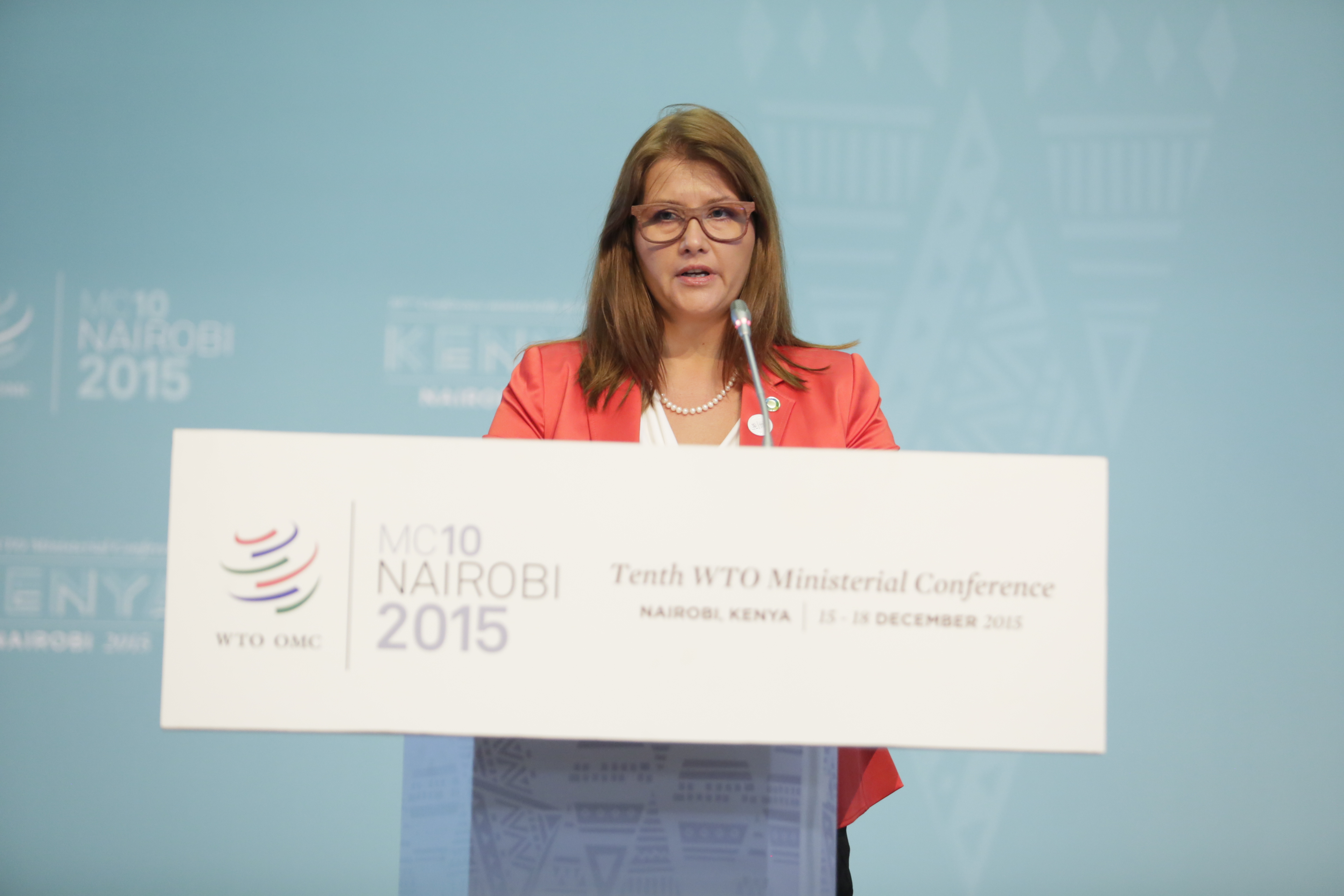 Day 3 of the 10th WTO Ministerial Conference, Nairobi, 17 December 2015. Photos may be reproduced provided attribution is given to the WTO and the WTO is informed. Photos: © WTO. Courtesy of Admedia Communication.